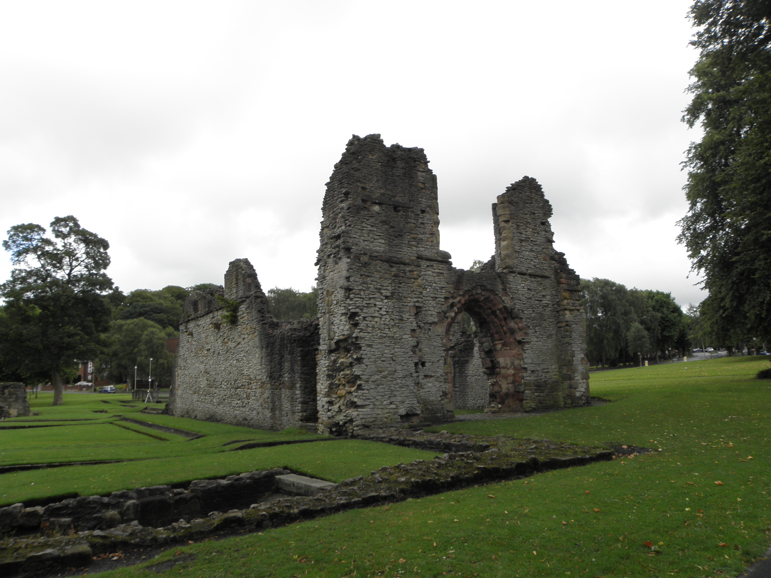 Dudley Priory ruins